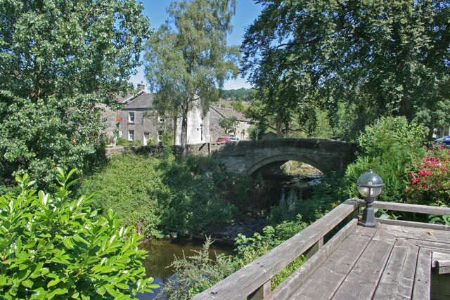 Clapham Beck. Taken from the riverside seating area shown in 137837. The bridge carries the B6480 over the beck.